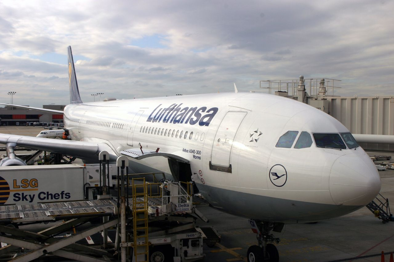 Airbus A340-311 D-AIGI "Worms"